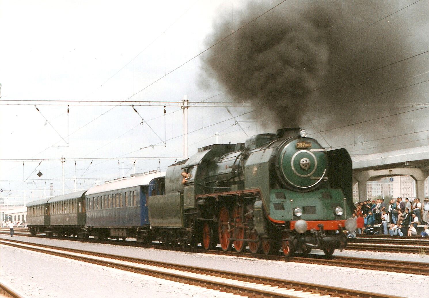 387.043 ČSD at Bratislava Petržalka railway station